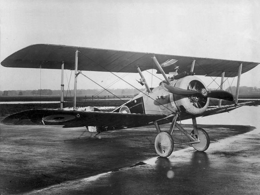 Royal Flying Corps Sopwith F.1 Camel in 1914-1916 period.